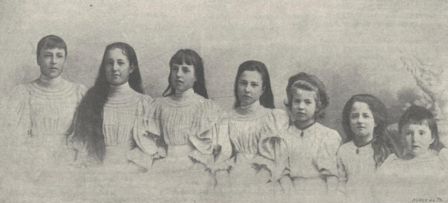 Daughters of Archduke Friedrich, Duke of Teschen and Princess Isabelle of Croy-Dülmen